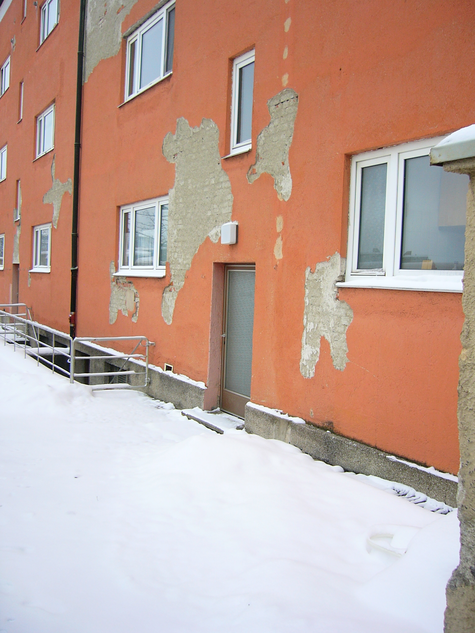 Bad house facade (seen in Munich Germany)